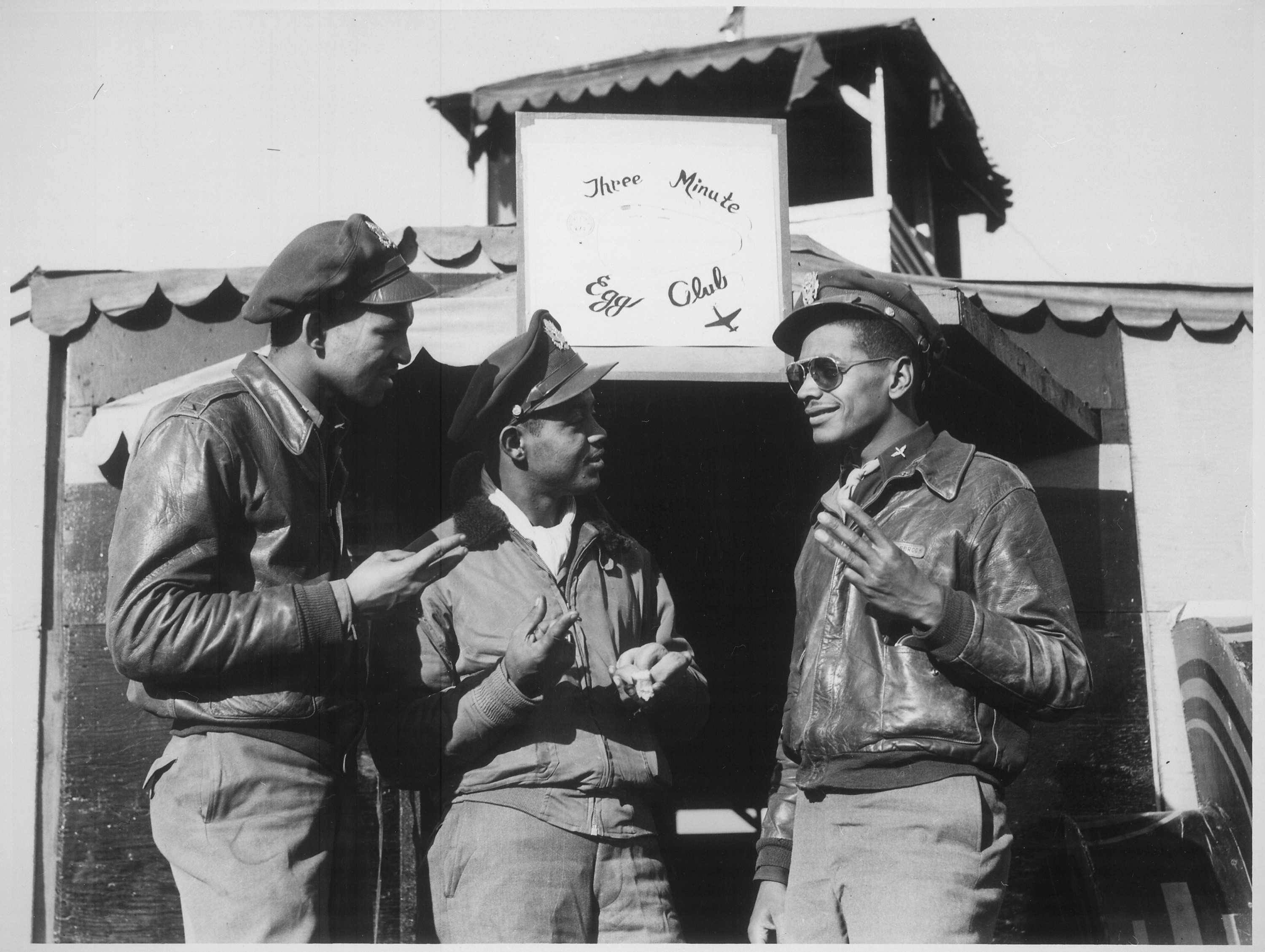 Scope and content: Left to right: 1st Lts. Clarence A. Dart and Wilson D. Eagelson and 2d Lt. William N. Olsbrook.